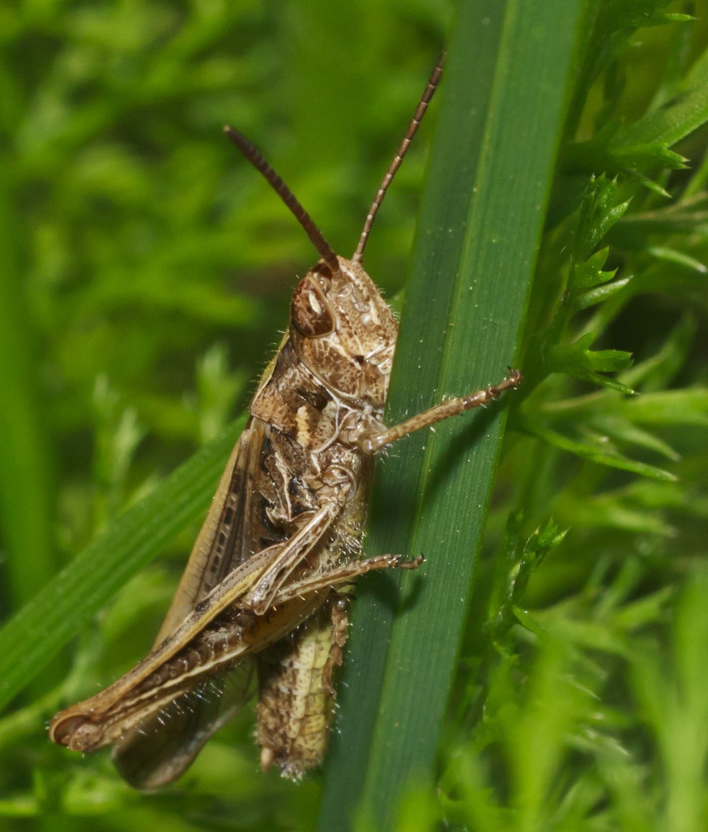 Chorthippus biguttulus